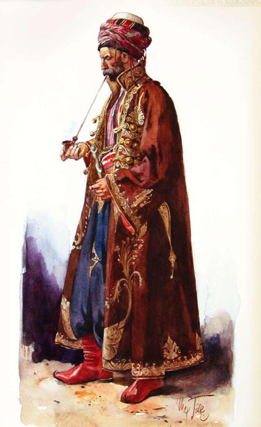 Kurd Man in national clothes